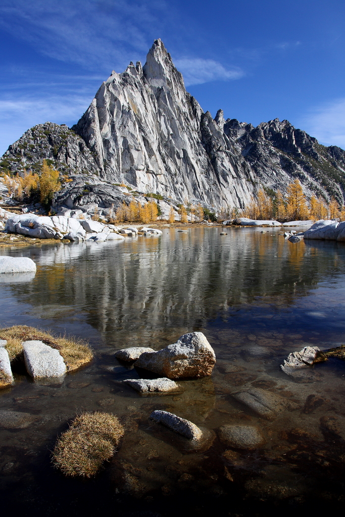 Gnome tarn, Enchantment Lakes, Washington, USA. Photo taken with polarizer. Version without polarizer: [1]